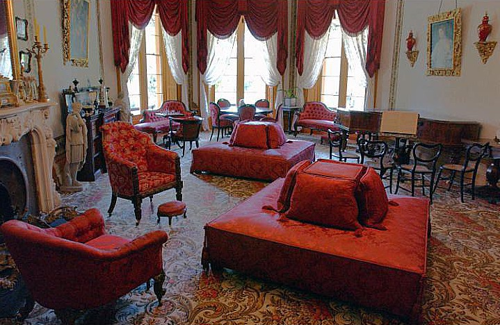 Drawing Room in the historic Vaucluse House — located in Vaucluse, a suburb of Sydney, Australia. The oldest Historic house museum in Australia. 1830'S residence designed in the Gothic Revival Style.